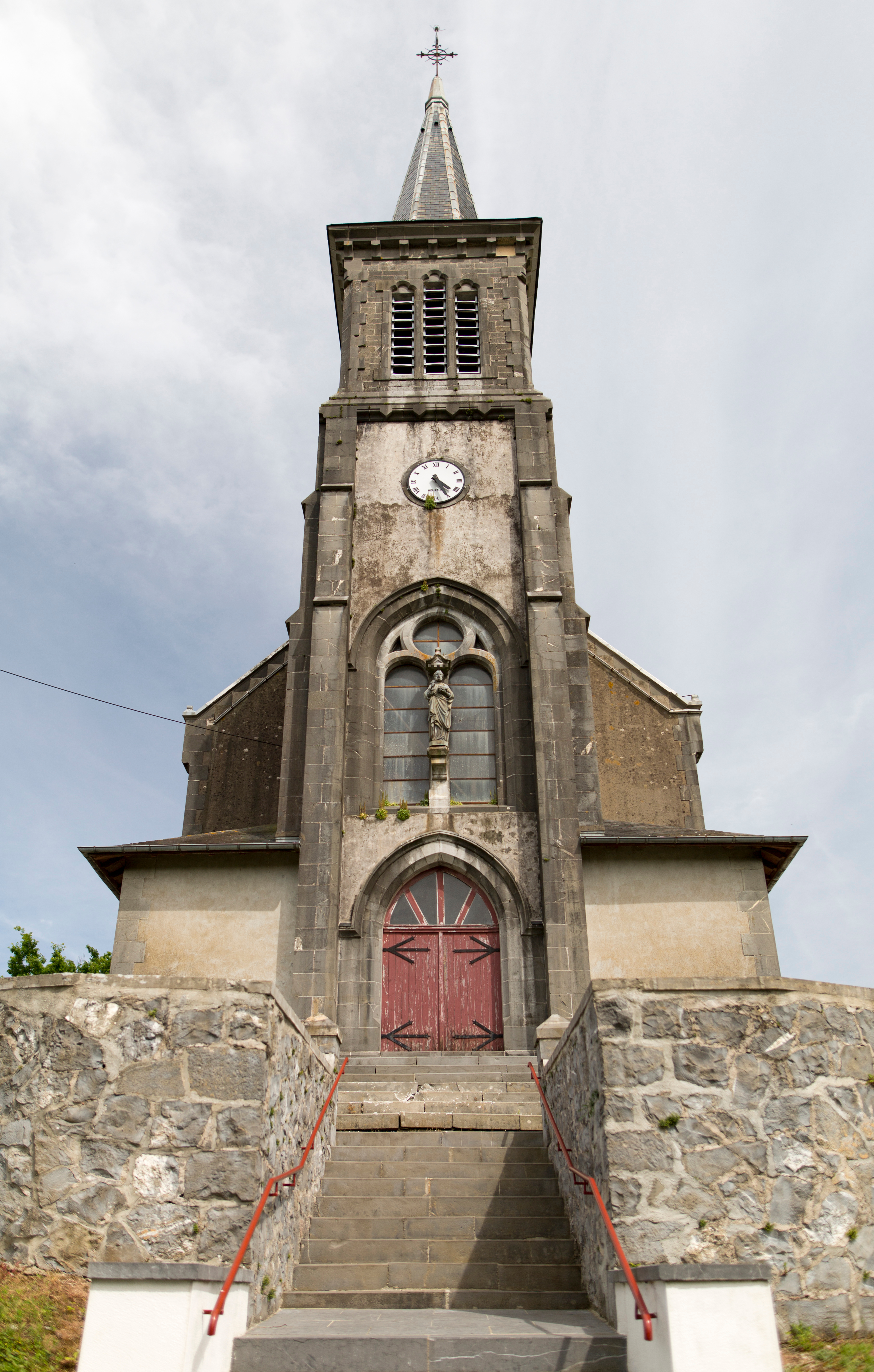 Bonloc - Église